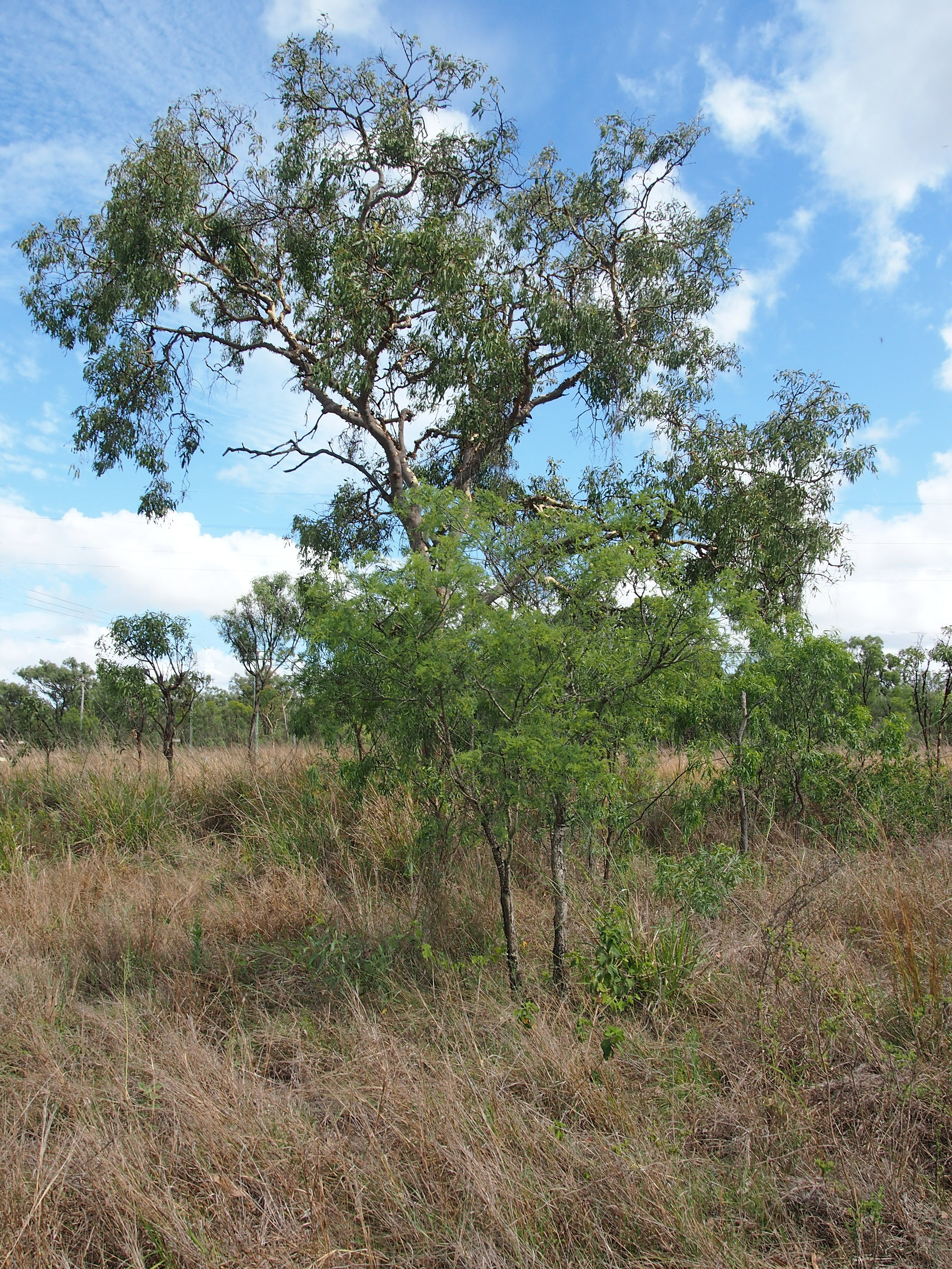 Acacia bidwillii with Corymbia dallachiana tree in the background. Rockhampton, Central Queensland